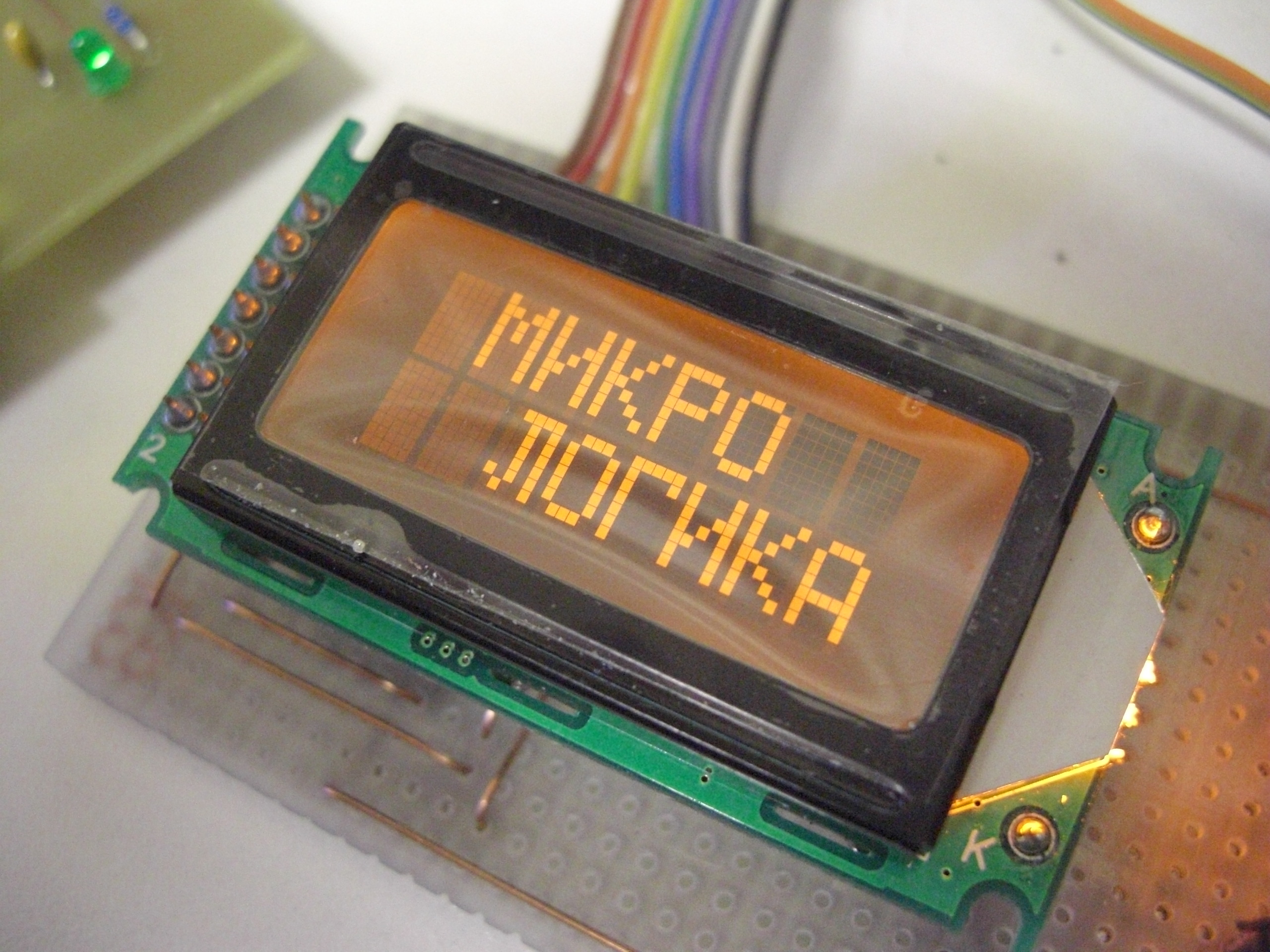 Photo of amber-backlit alphanumeric 8 characters by 2 lines HD44780 compatible LCD module.